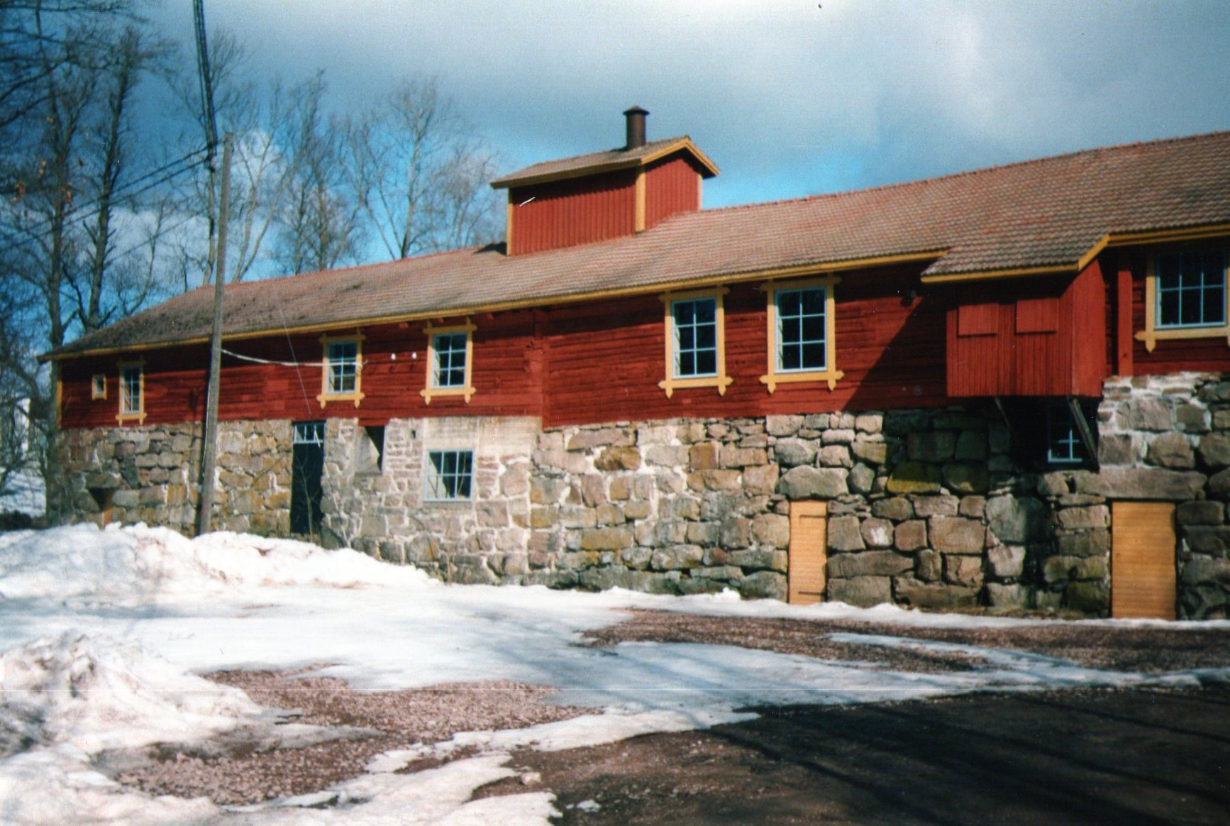 Panelia watermill, Eura, Finland.